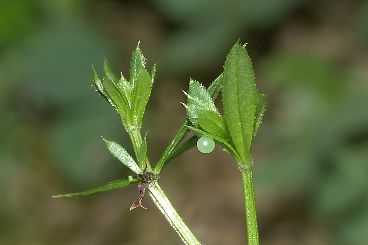 Hummingbird Hawk-moth